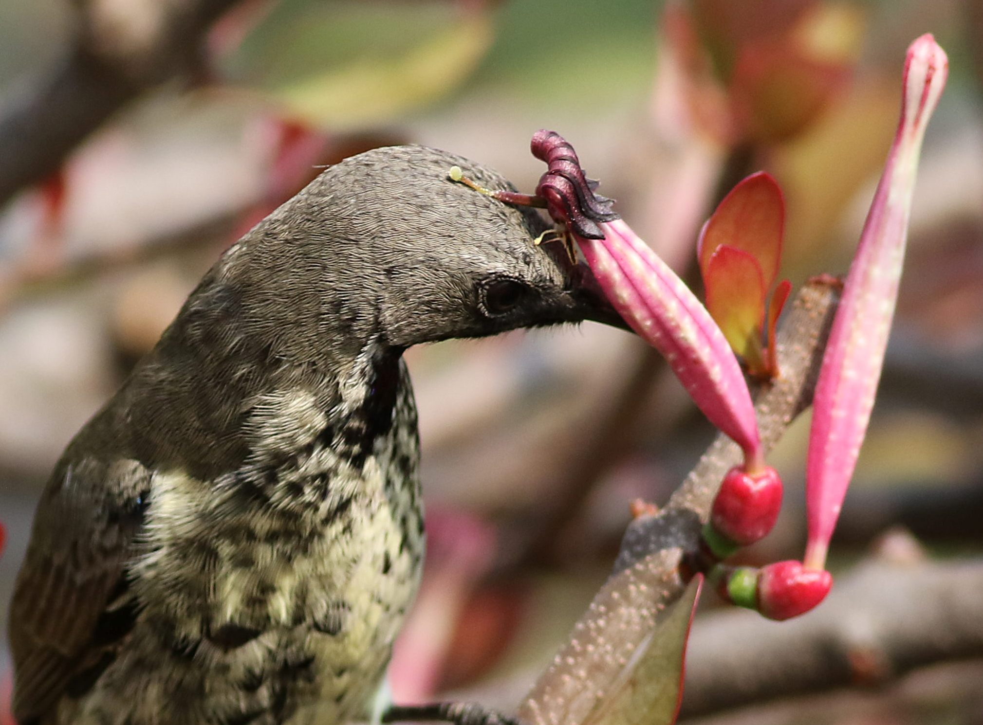 An immature male Amethyst sunbird of the nominate race, feeding on nectar of a mistletoe flower at the Kloofendal Nature Reserve, Johannesburg, South Africa. The pollen-laden anthers of the Tapinanthus mistletoe rub against feathers of the forecrown, while the pistil rests higher up.